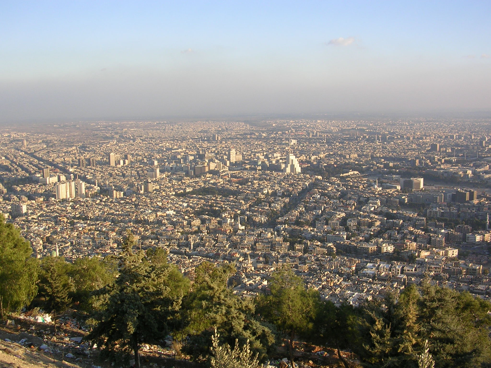 Damascus, the capital city of Syrian Arab Republic, pictured from Jabal Qasioun (Mt. Qasioun).